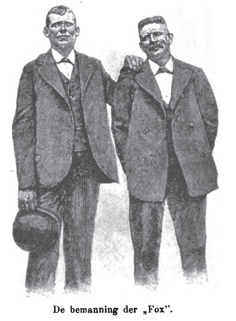 Drawing of Frank Samuelson and George Harbo